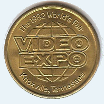 1982 Knoxville World's Fair minted Arcade token back